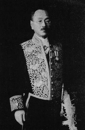 Late Mr. Sukesaburō Doi, emeritus professor of the Osaka Higher Technical School.